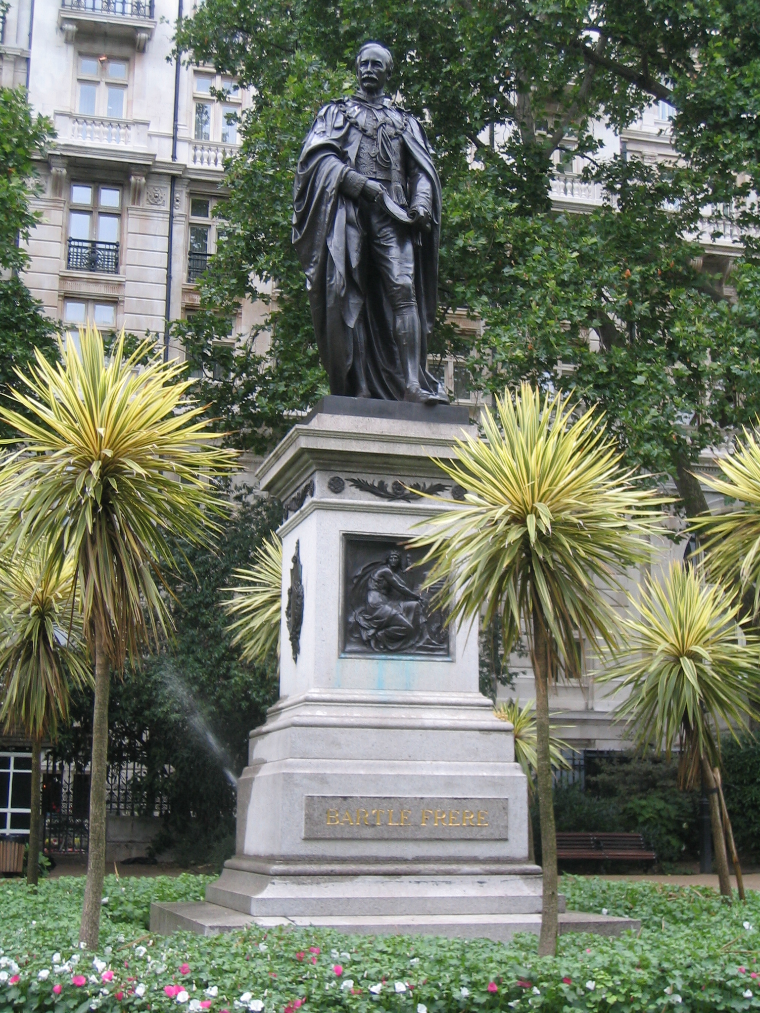 Photograph of statue of Sir Henry Bartle Edward Frere, 1st Baronet in the Victoria Embankment gardens, London.